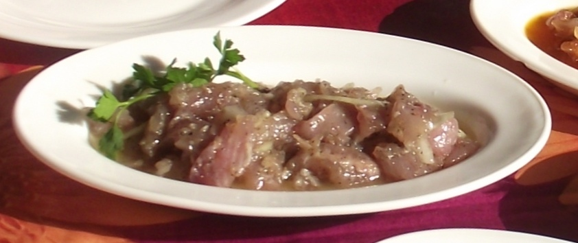 Fresh fish dish from Russian North